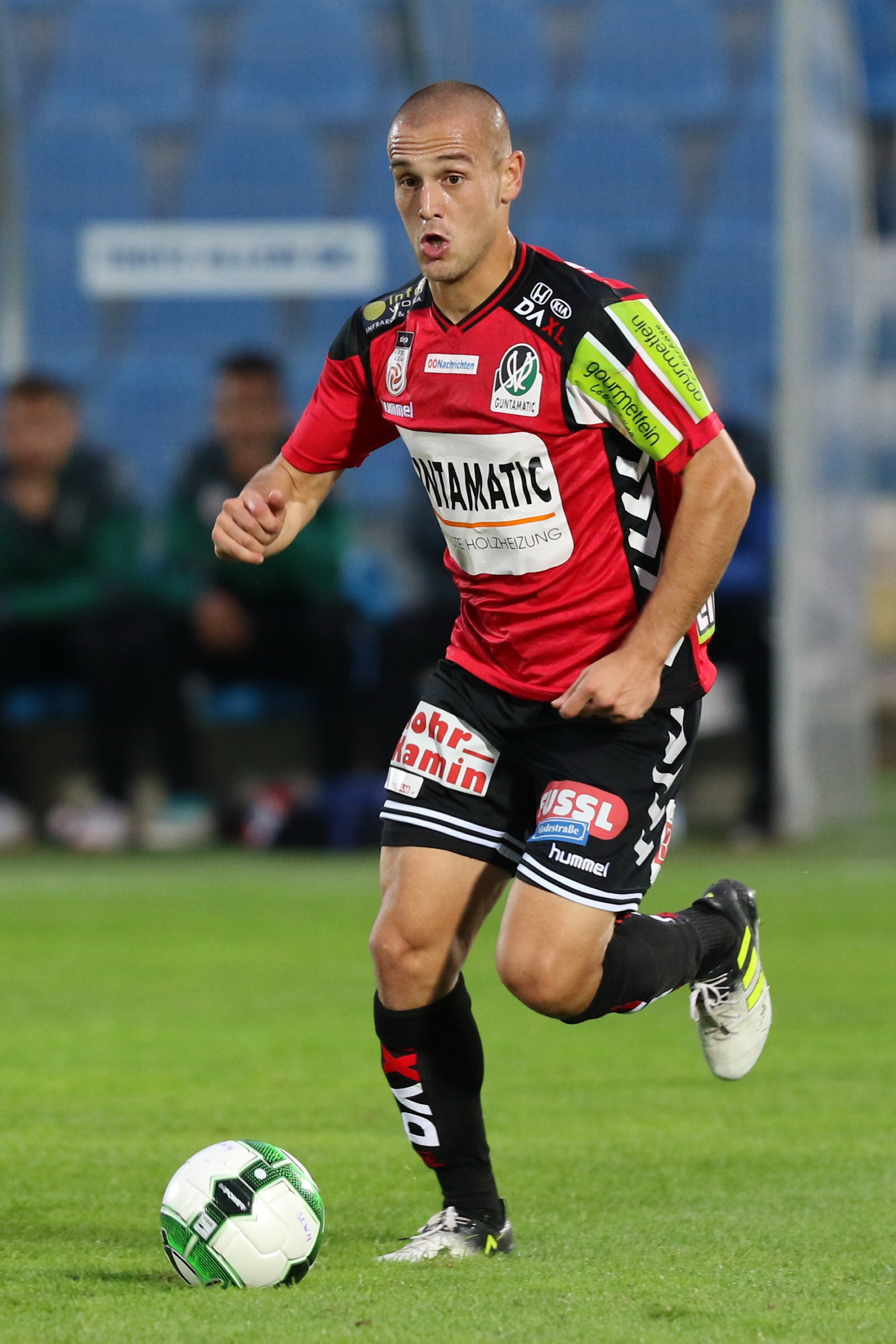 Lukas Grgic - SV Ried